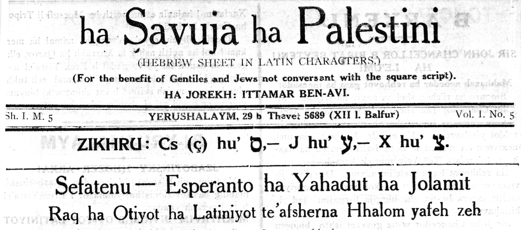 Title of the romanized Hebrew newspaper "ha Savuja ha Palestini"